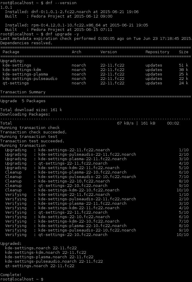 dnf updates Fedora 22 (Linux)